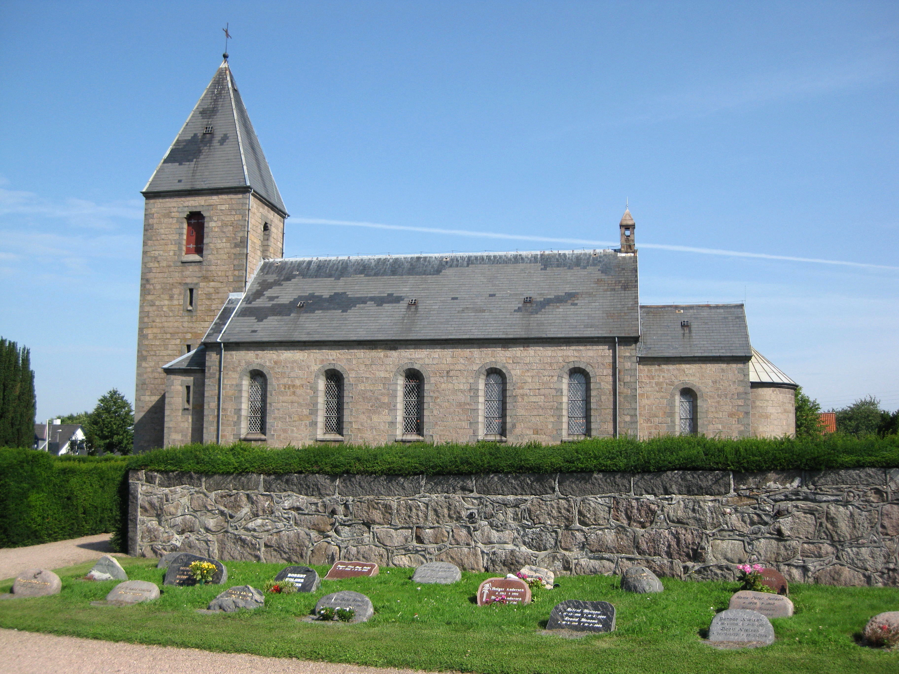 The church "Vestermarie Kirke" in the small town "Vestermarie". The town is located on the island Bornholm in east Denmark.